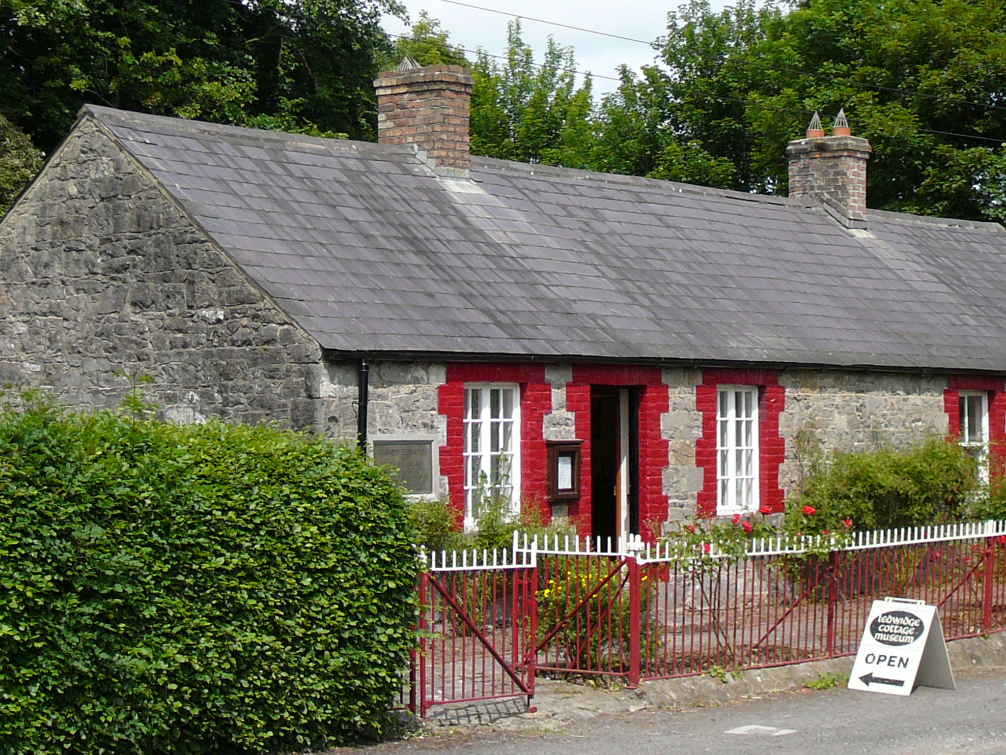 Image of original cottage in which the Irish poet Francis Lidwidge was born and grew up in. The cottage is now the commemorative Ledwidge Cottage Museum.Directions to the Museum: Leaving Slane on the N51 in the direction of Drogheda, it is reached after a few kilometers on the left hand road side. It has a small car park, but no advance notice sign. The road can be very busy.